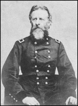 Philip St. George Cooke (June 13, 1809 – March 20, 1895)